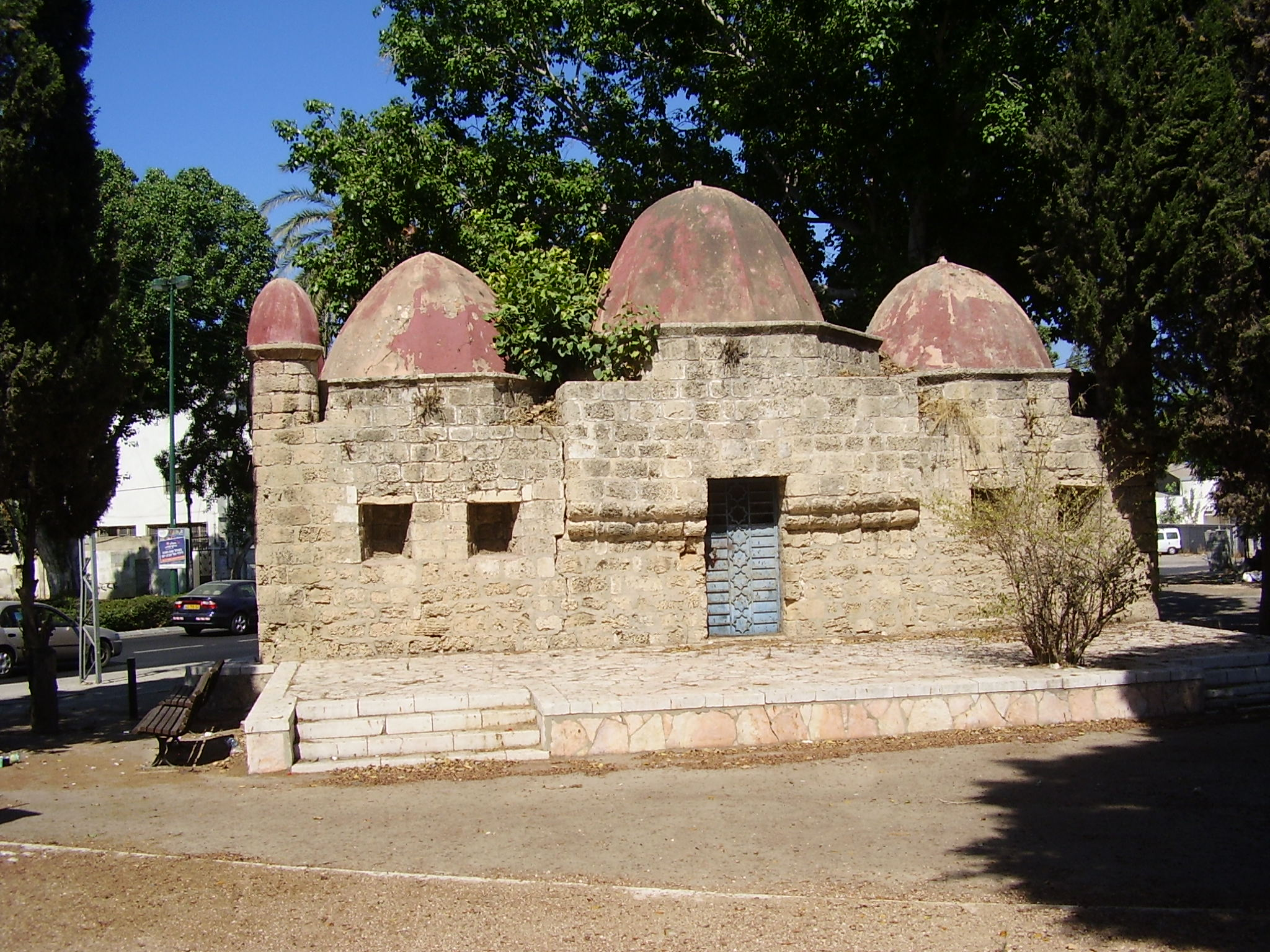 Tel Aviv, sabil (drinking facility) abu nabut(1820) on the road between Jaffa and Jerusalem.